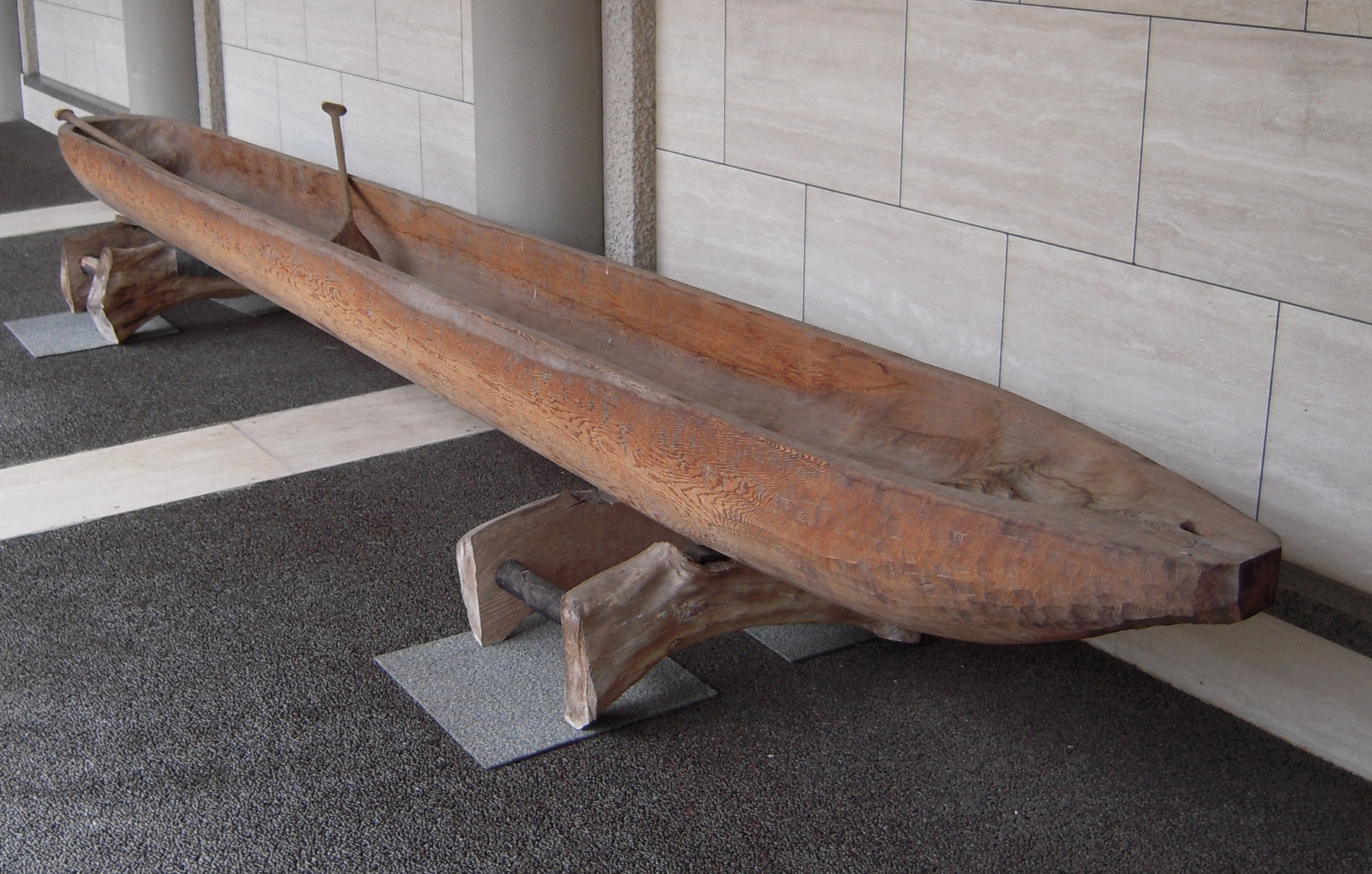 A replica of an ancient dugout canoe of Biwako (Japan)